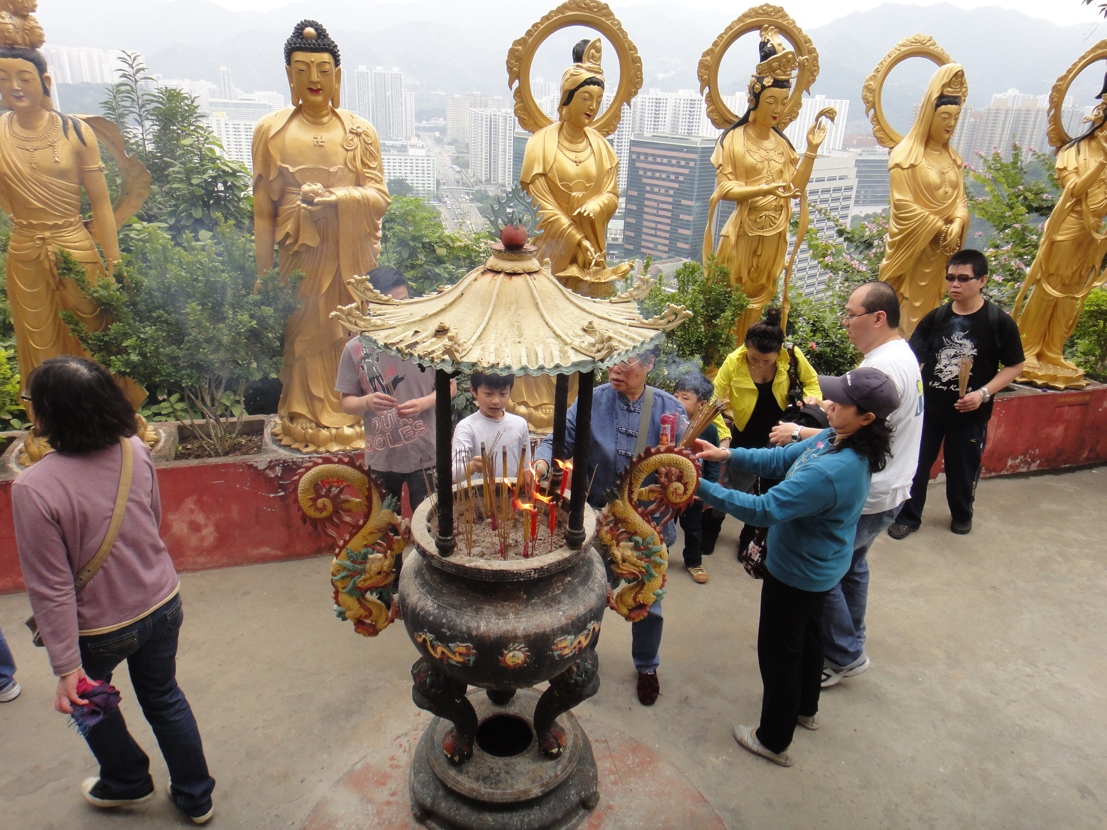 in Buddha Temple